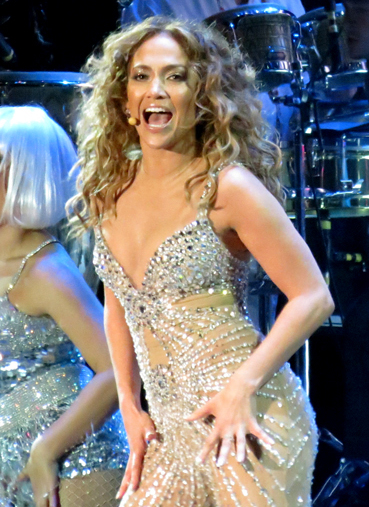 Jennifer Lopez live at the Pop Music Festival in São Paulo, Brazil (June 2012).